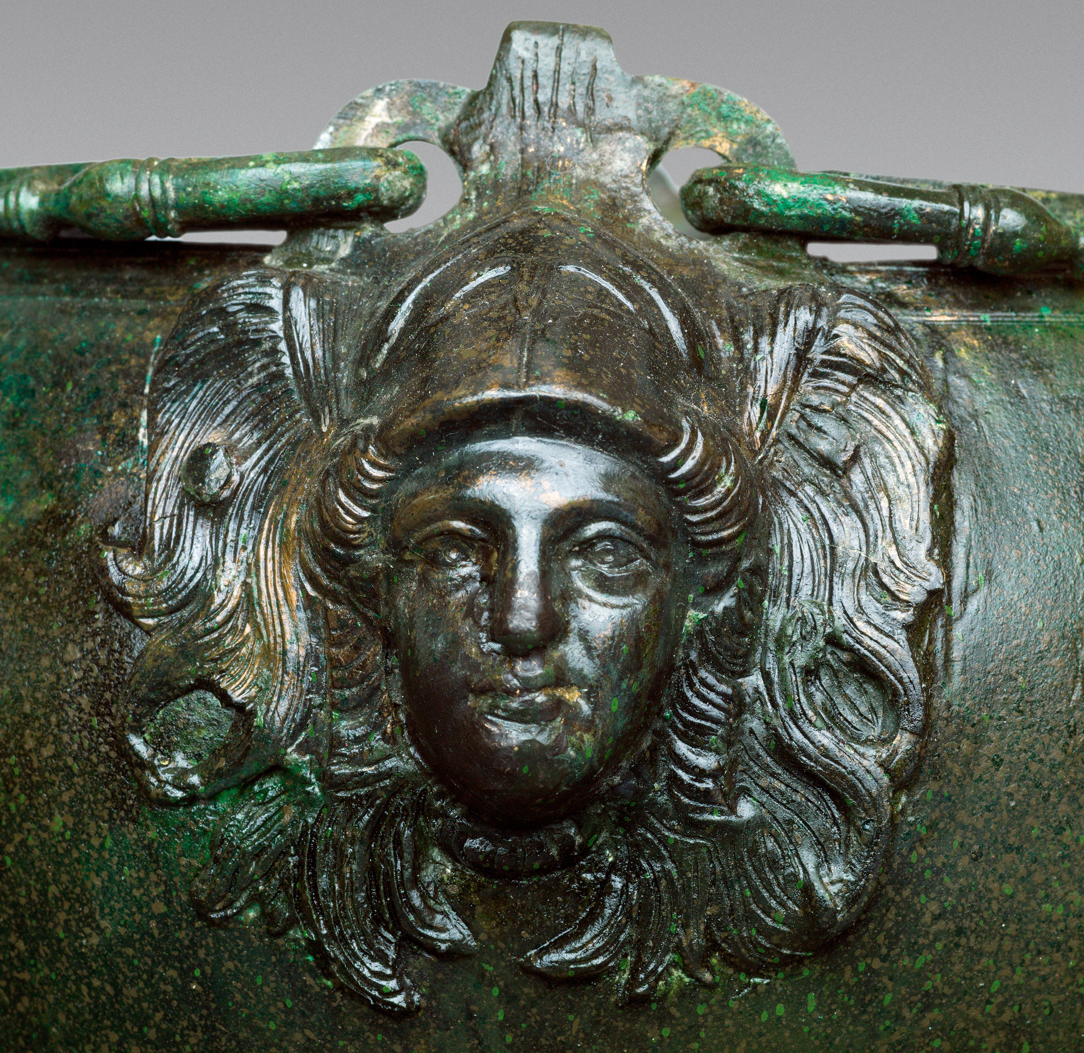 Head of Athena, detail from a bronze stamnoid situla, 340-320 BC, part of the Vassil Bojkoc collection, Sofia, Bulgaria